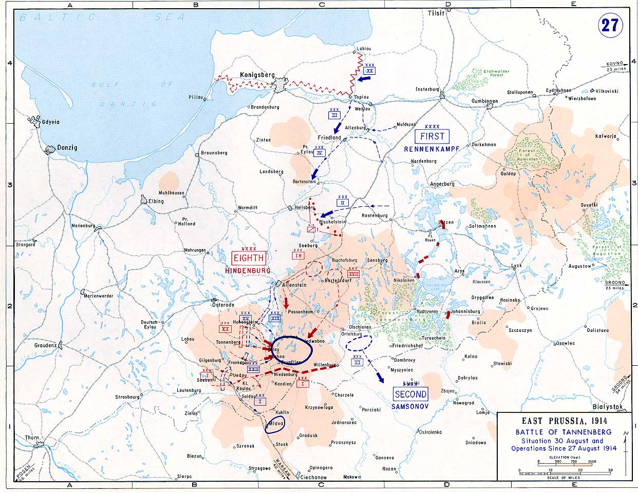 Battle of Tannenberg (1914) in its last phase